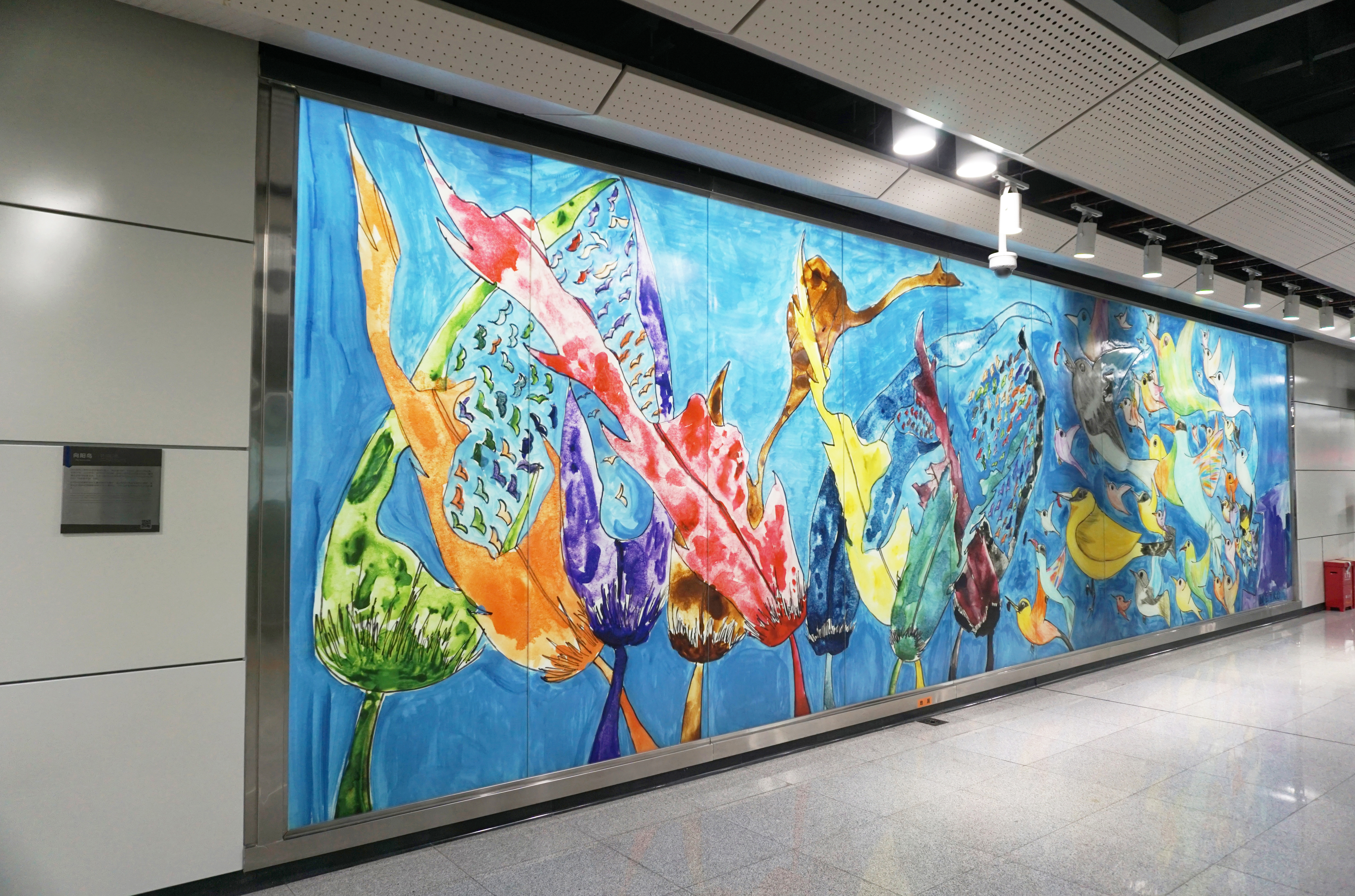 Xili Lake Station in Nanshan, Shenzhen.